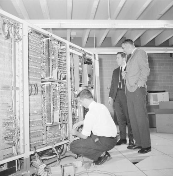 Wesley Graham (right) talking with IBM representative Chester Warchol while someone works on setting up computer, an IBM 7040.